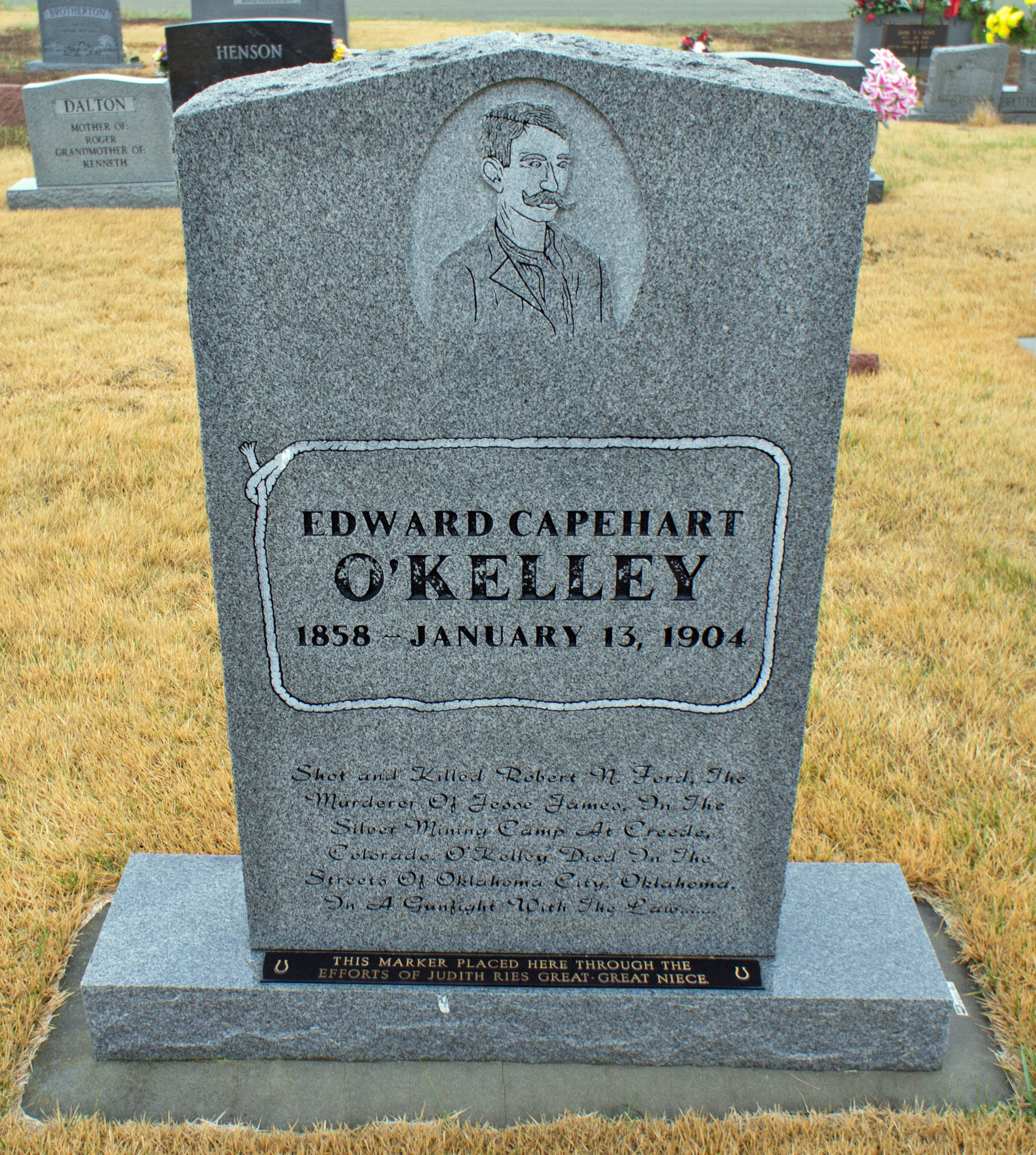 Edward O'kelly memorial - front view stating life span and historical note.